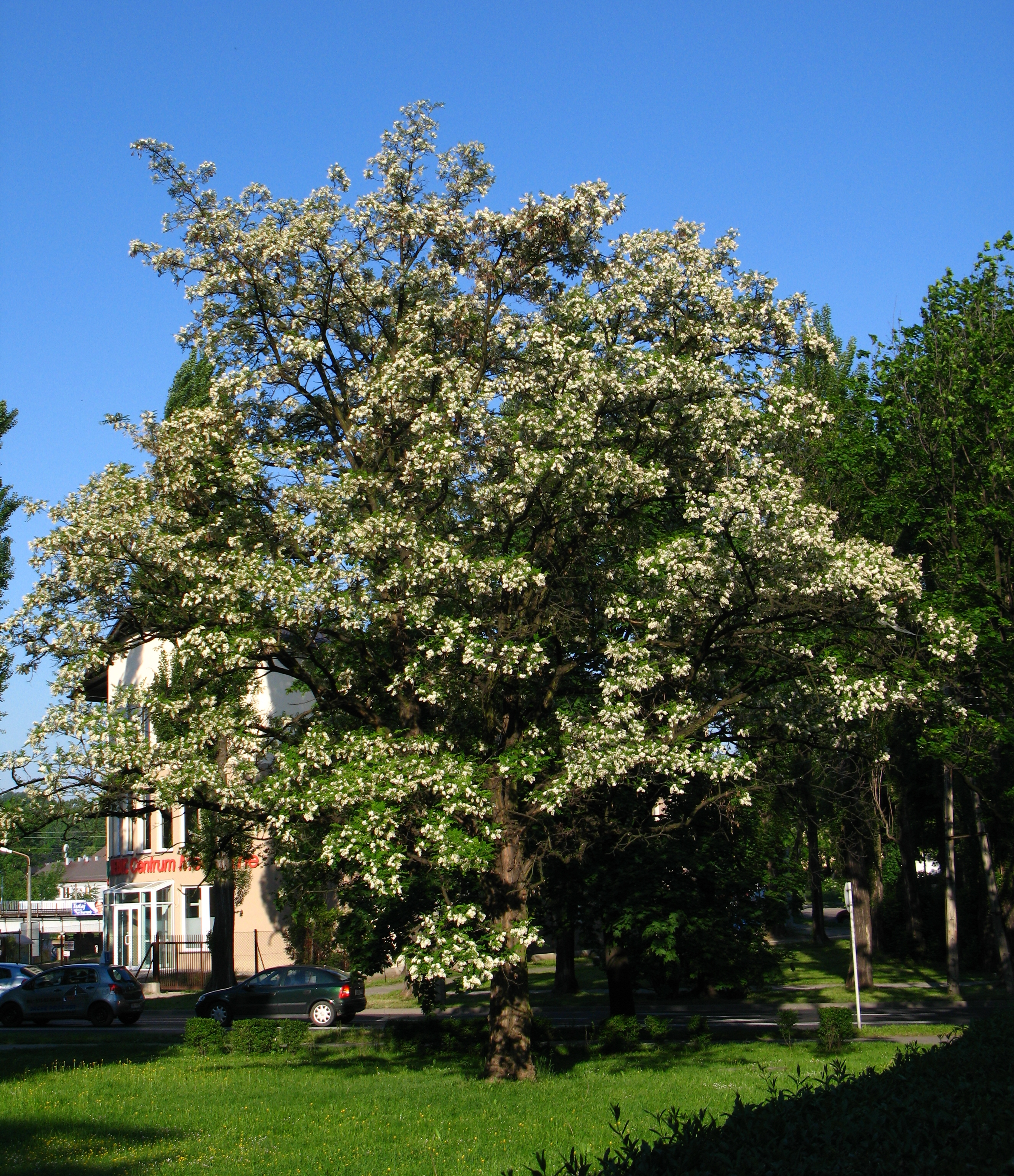 Robinia pseudoacacia in Bielsko-Biała, Poland.